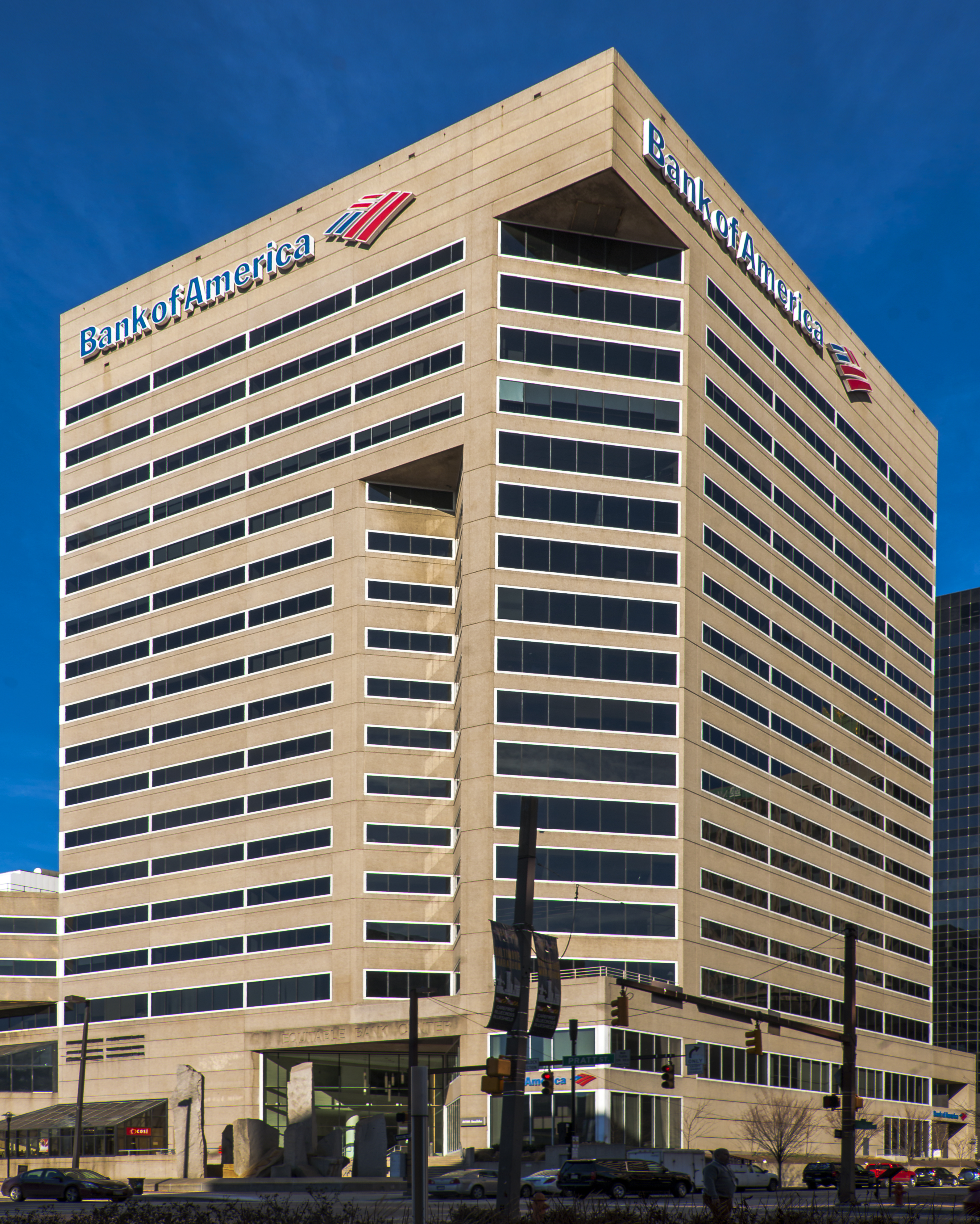 The Bank of America Center on East Pratt Street in Baltimore's Inner Harbor